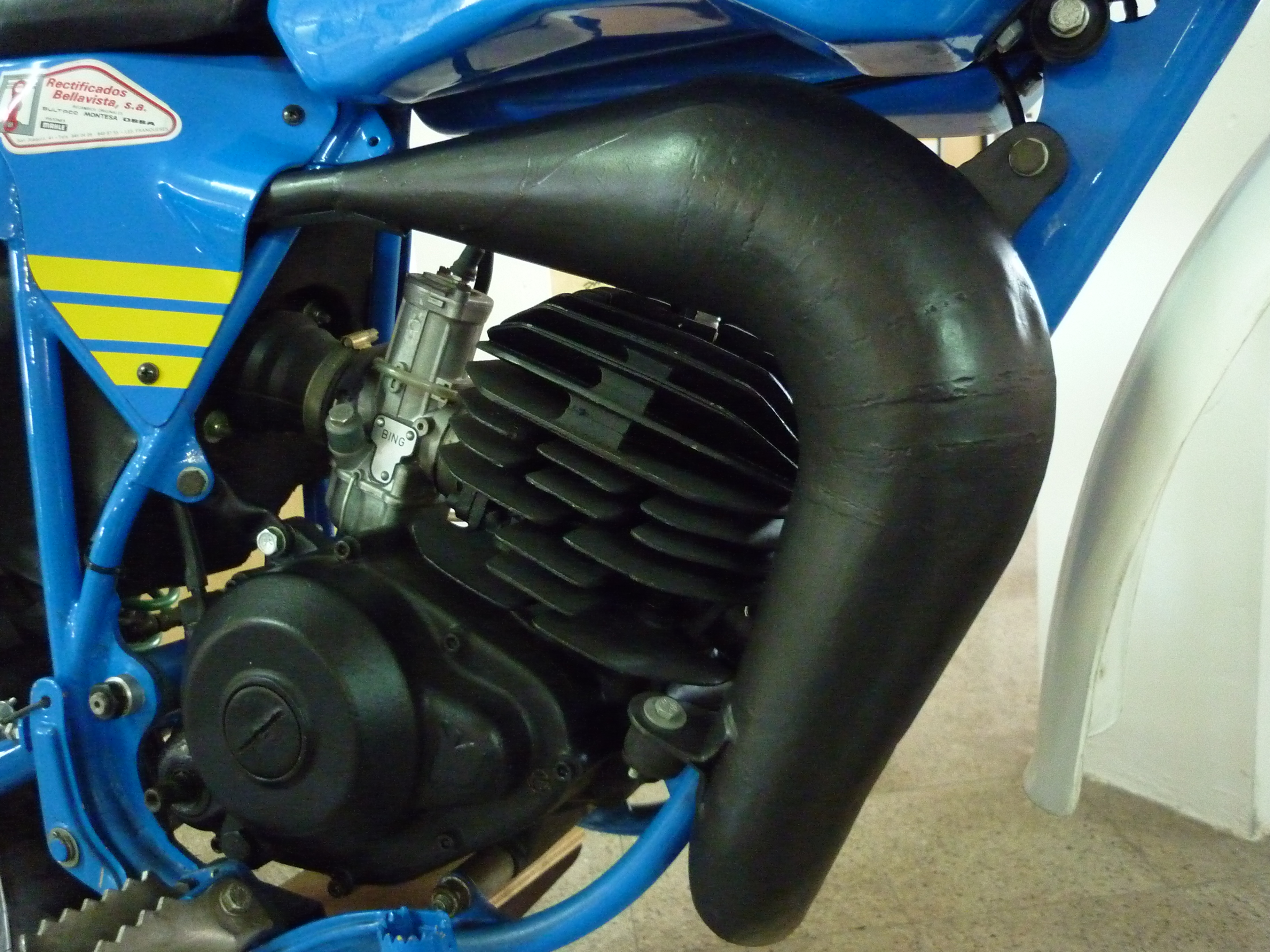 Engine of a Bultaco Pursang MK15 125cc prototype (1980), did not sell because the company went into bankruptcy.Isern Motorcycle Museum, Mollet del Vallès (Catalonia).